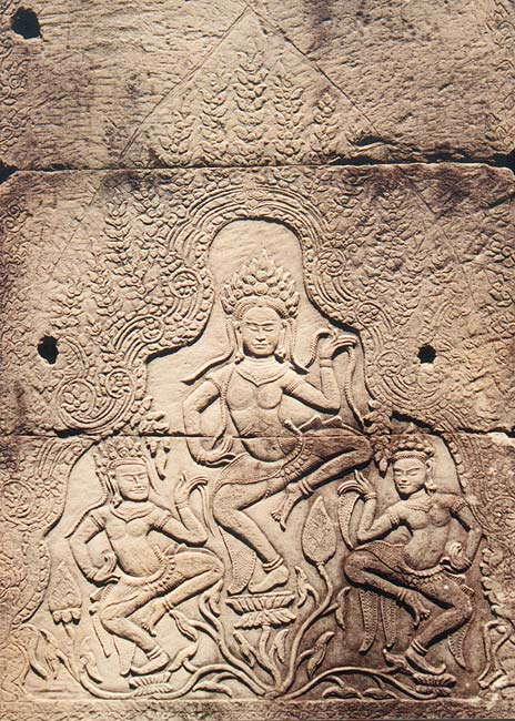 Dancing apsara carvings in Angkor